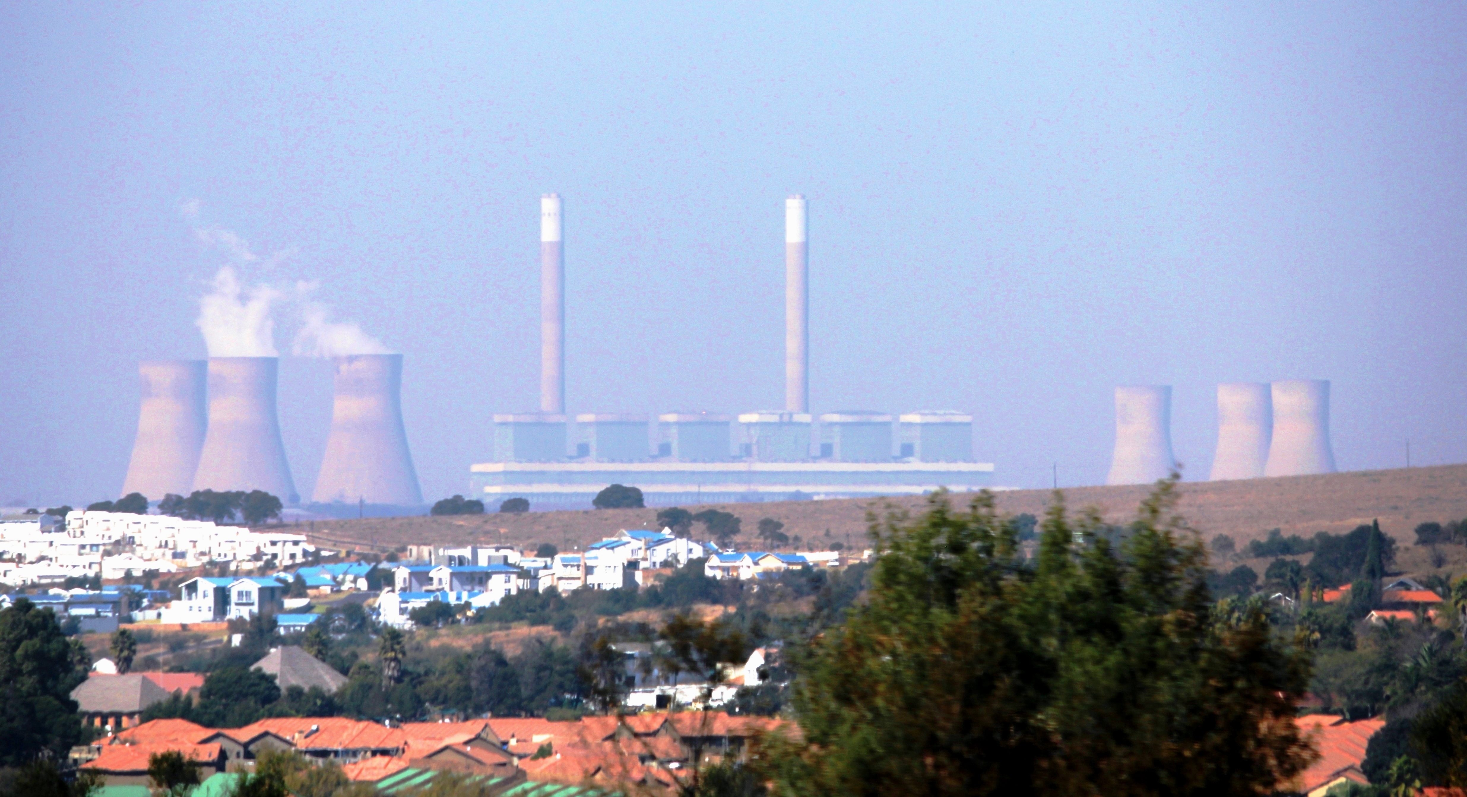 Duvha Power Station seen from the outskirts of Witbank, Mpumalanga. Bankenveld Golf Estate, with turquoise roofs, is seen in the foreground.